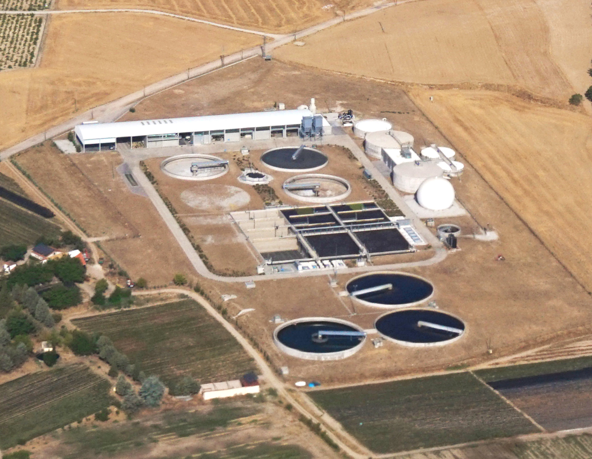 Water treatment plant in Madrid, Spain. This photograph was taken with a Sony Alpha a5000.